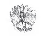 Head of the European perch (Perca fluviatilis)